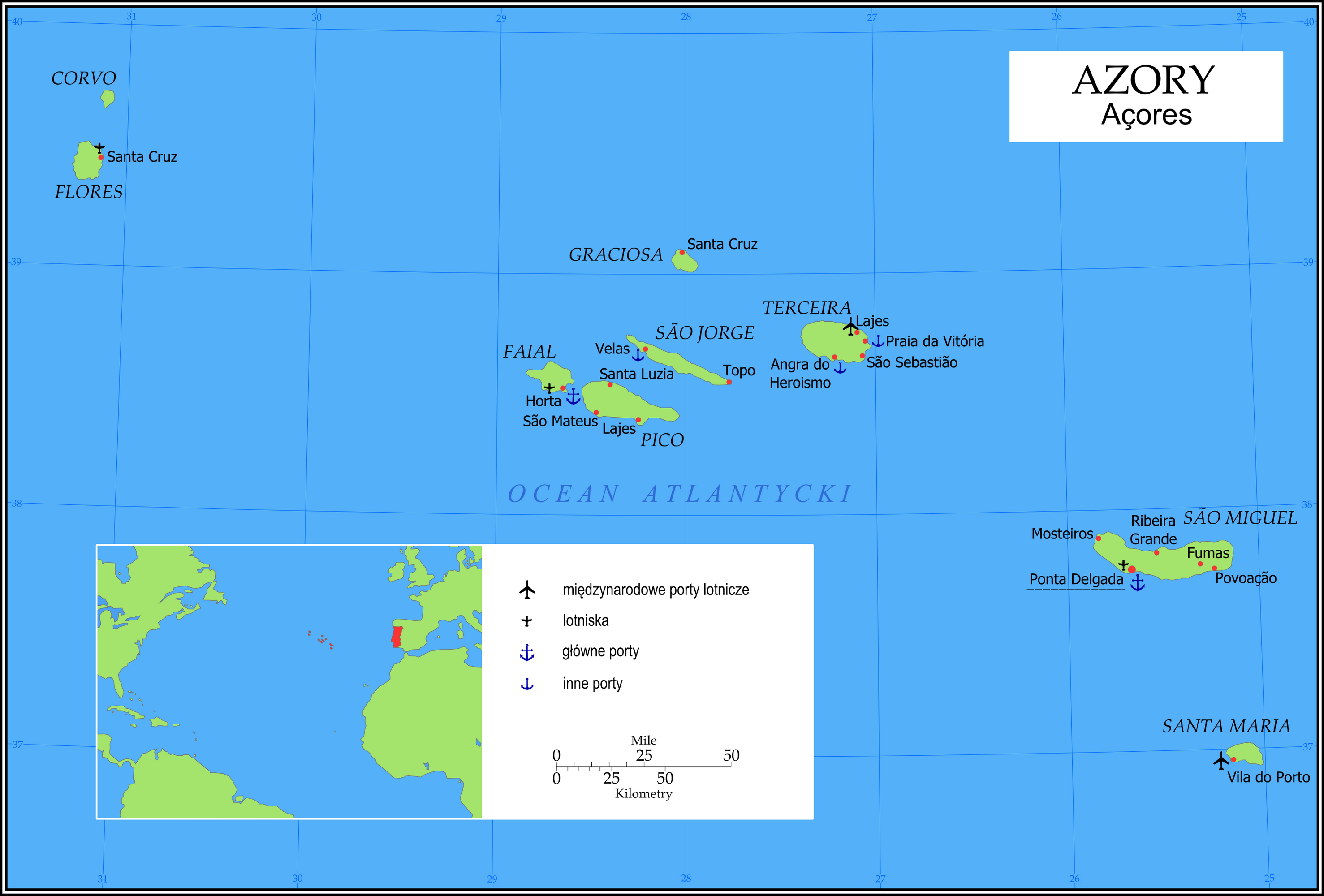 map of the Azores international airport airfield principal port secondary port Atlantic Ocean